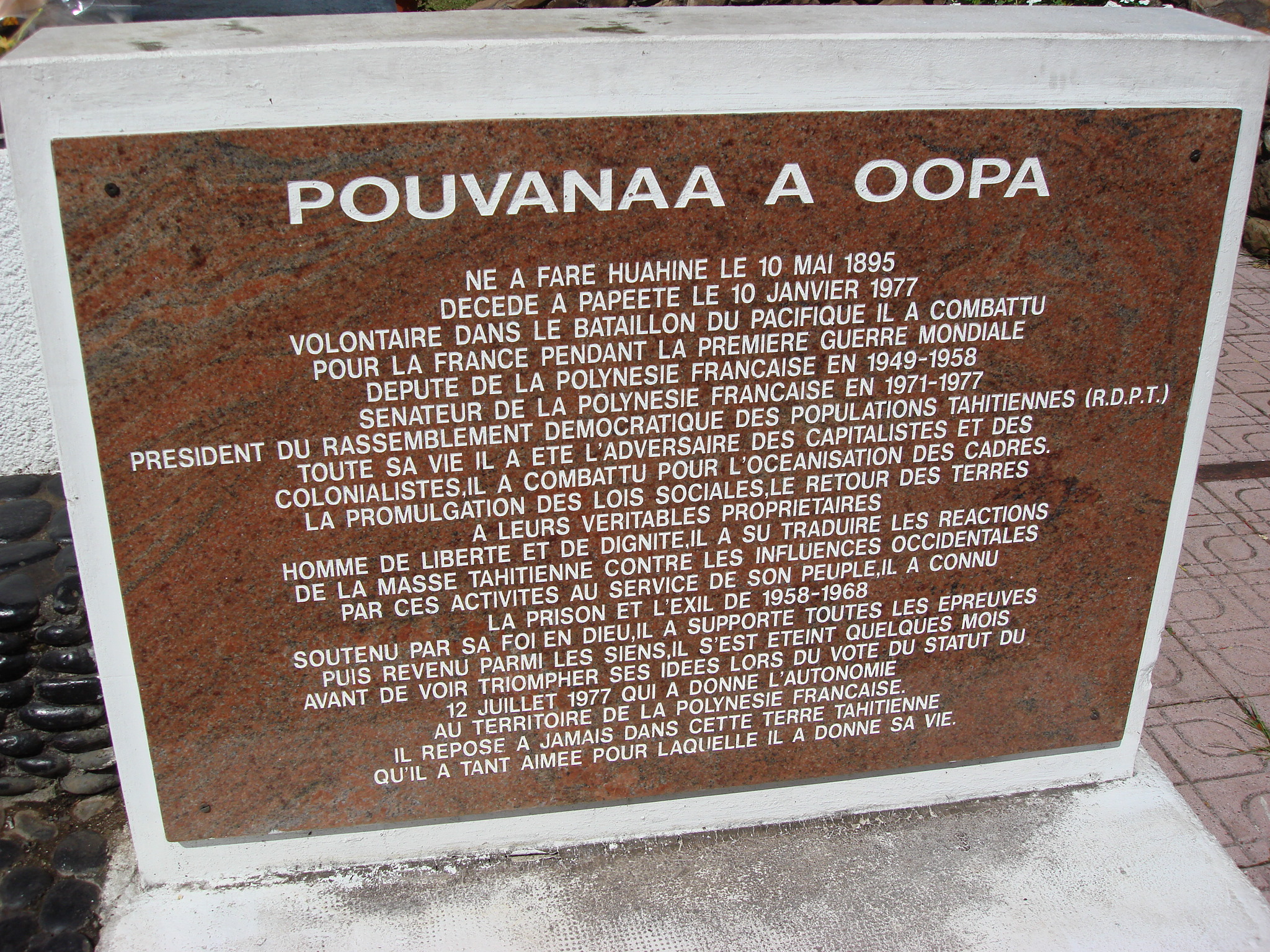 The plaque on the base of the Ouvanaa a Oopa Monument and memorial Pouvanaa a Oopa 1895-1977, French Polynesia.